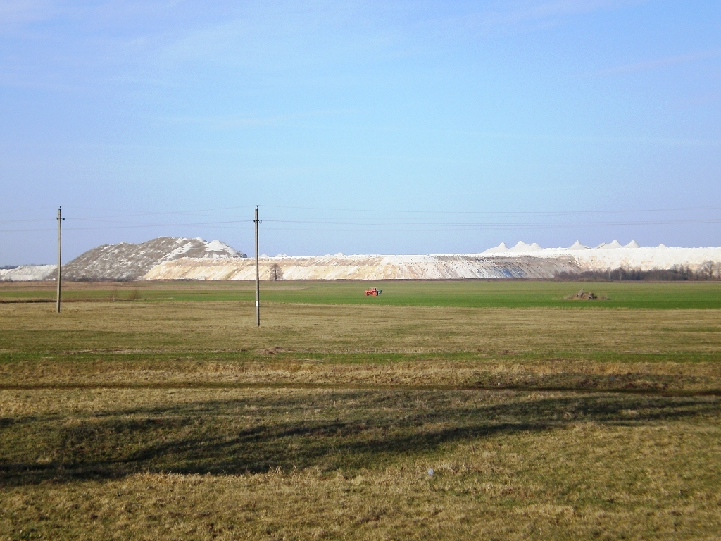 "Kedainiai Alps". Mountains of phosphogypsum